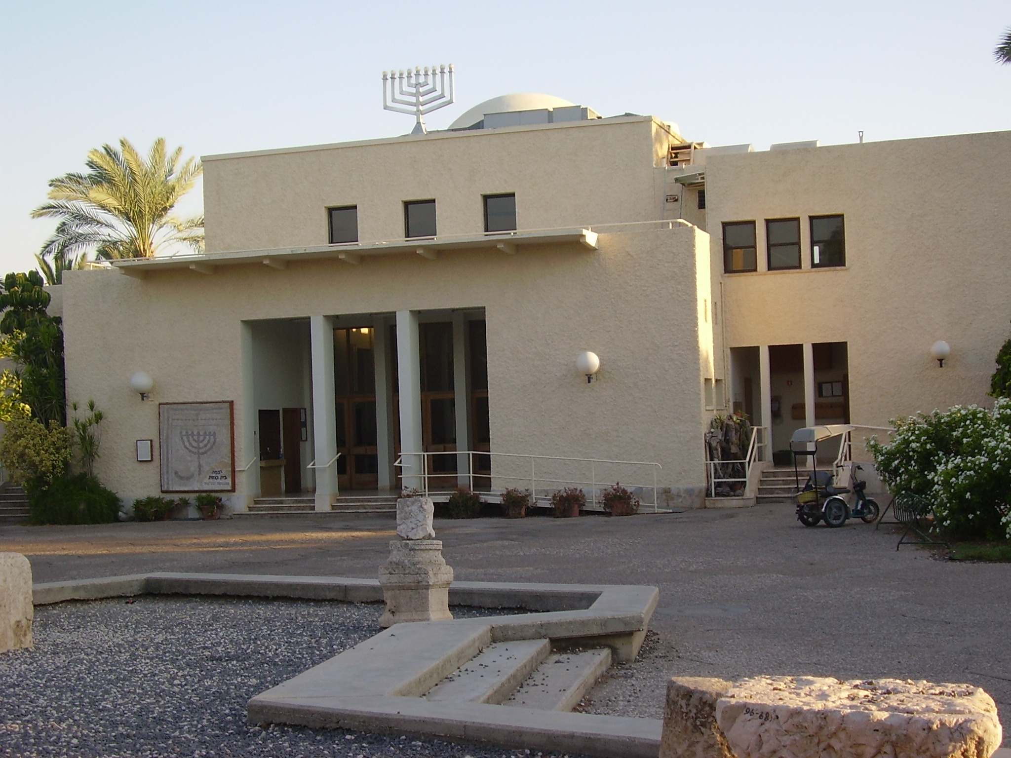 the synagogue in tirat tzvi בית הכנסת בקיבוץ טירת צבי